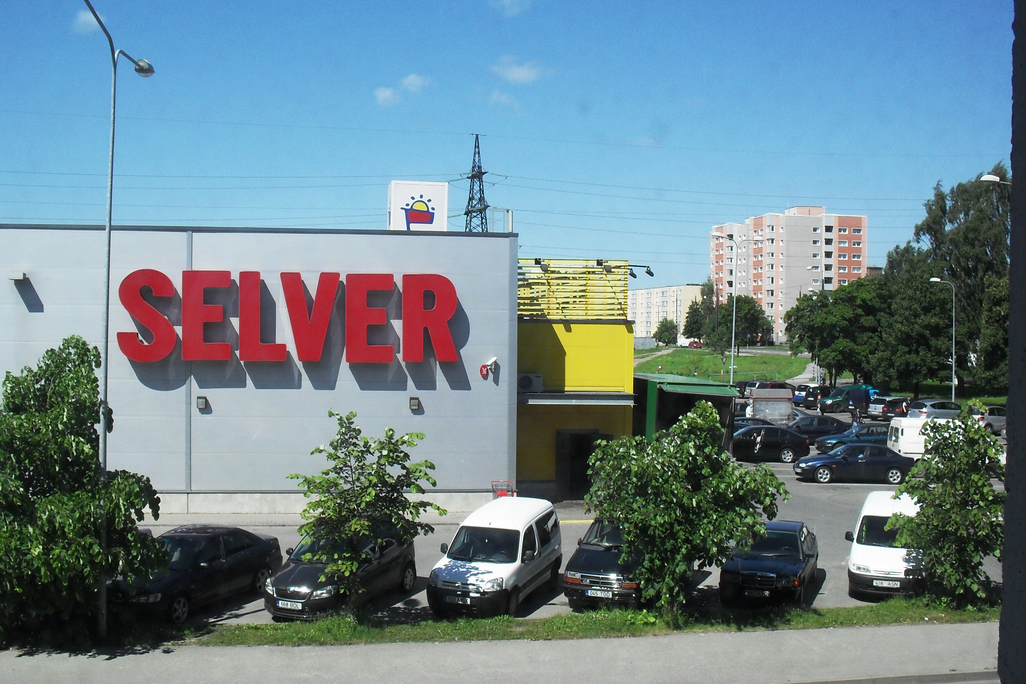 Selver shopp and it's neighbourhoods.